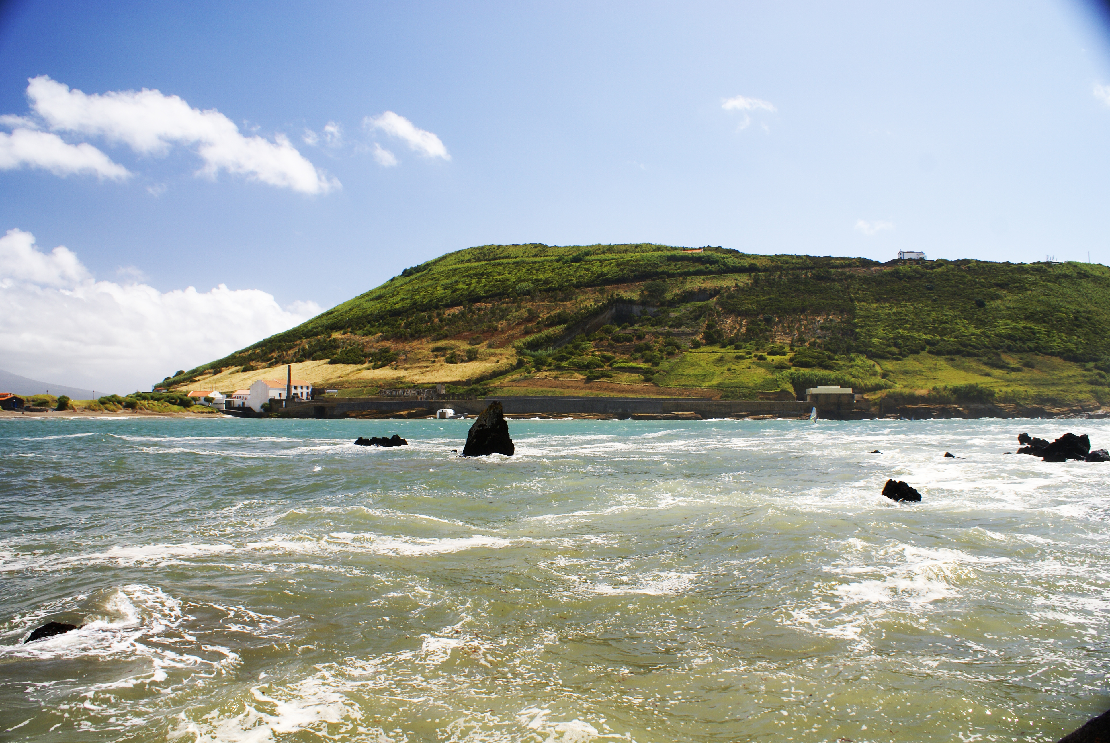 The bay of Porto Pim, on a stormy day, Horta, Faial (Azores), Portugal